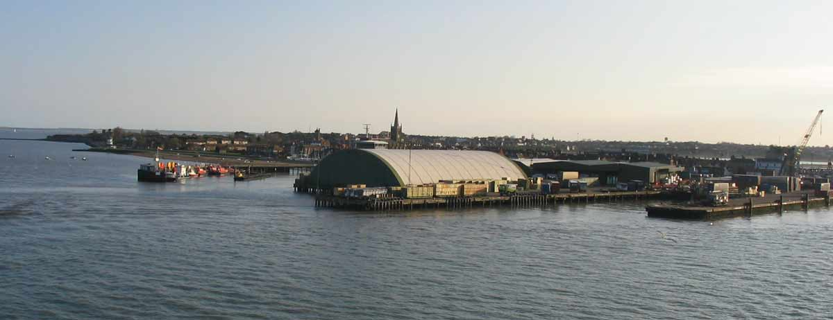 Harwich Docks, taken from the river, April 2004, I took this photo and release it into GFDL Sjc 08:22, 11 Sep 2004 (UTC)